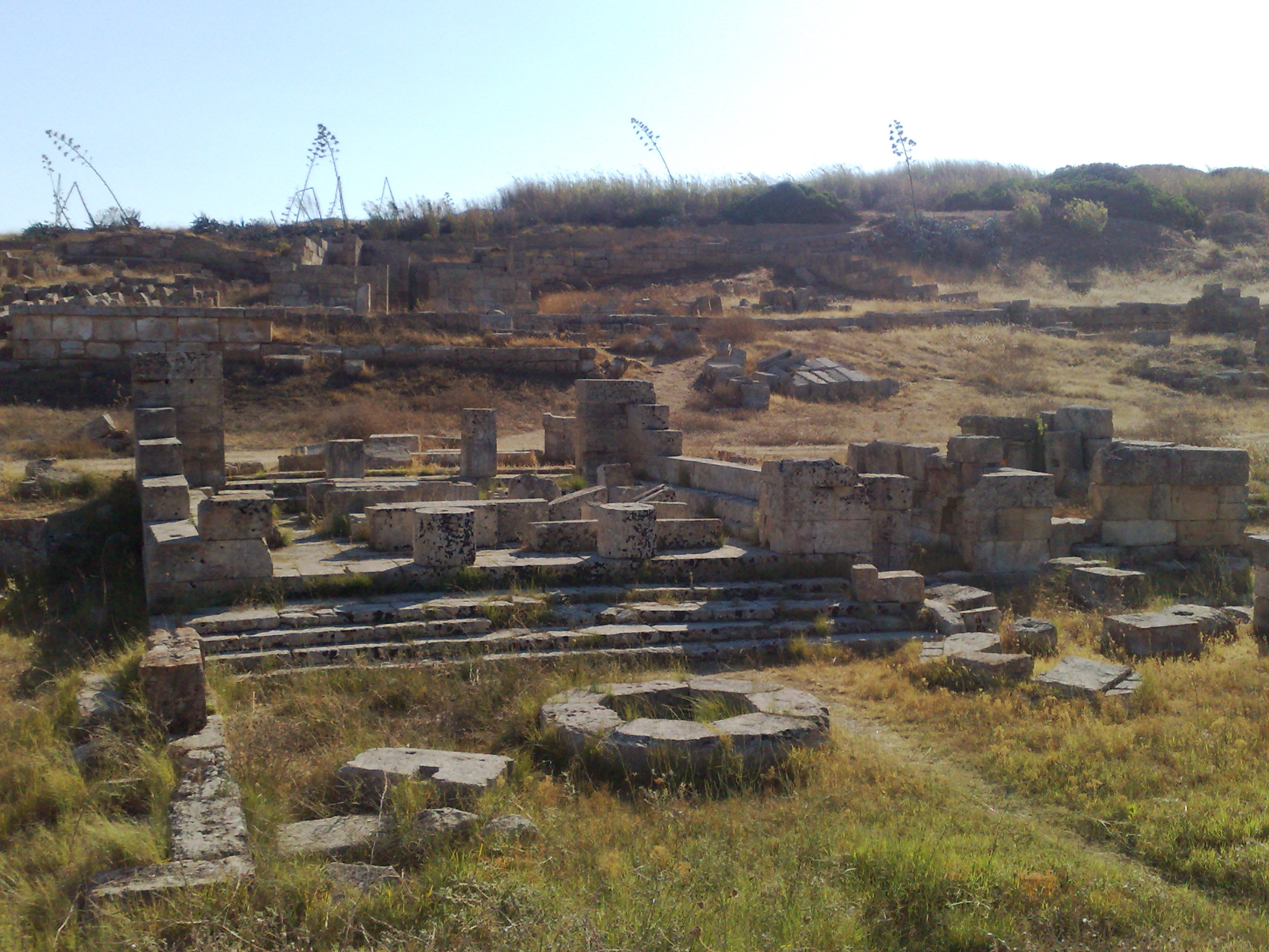 Selinunte Trapani: Sanctuary of Demeter Malophoros - Hecate temple in the foreground